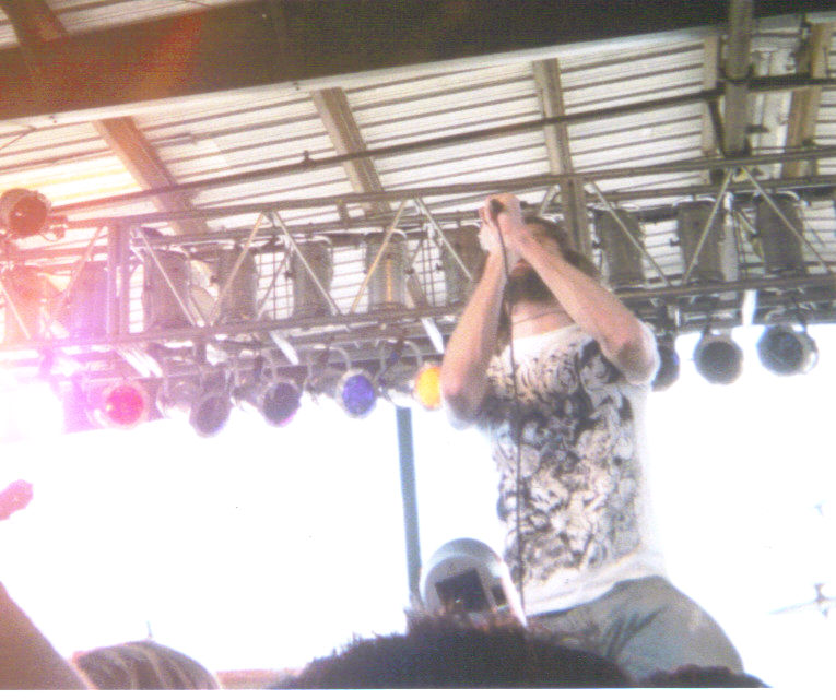 Dallas Taylor, the frontman of MATSOD Maylene and the Sons of Disaster. Created by Austinnn at 01:27, 5 August 2007.